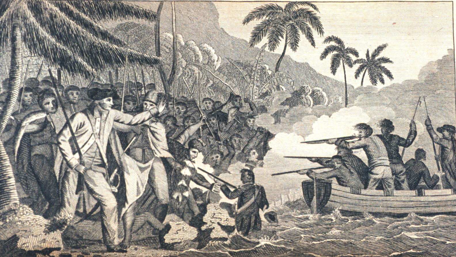 The death of Captain James Cook at Kealakekua Bay, Hawaii